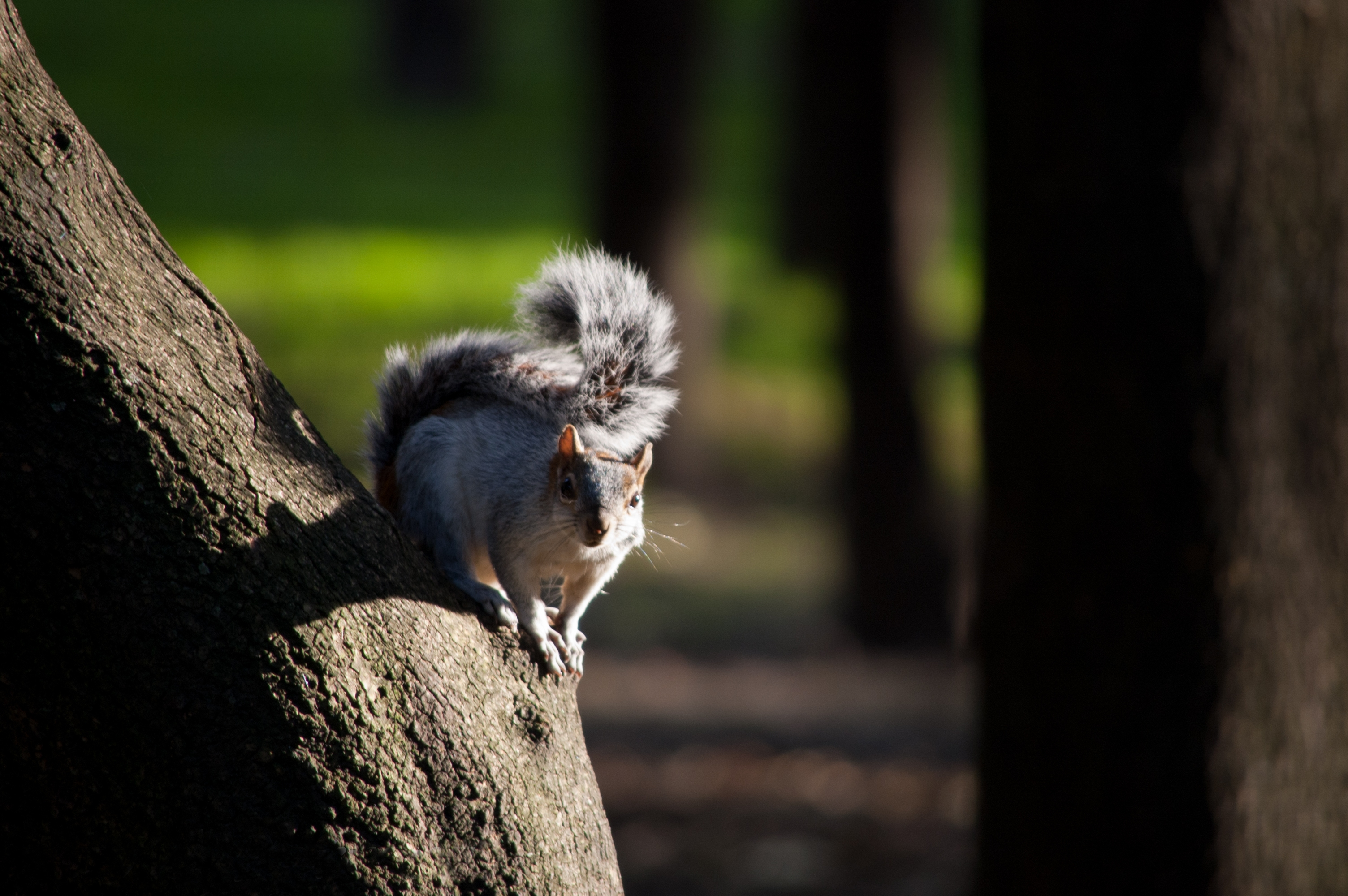 Sciurus aureogaster, grey mexican squirrel